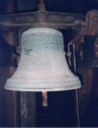 Bell from 1921 by Richard Herold, SS Simon and Jude church, Mojžíř, Ústí nad Labem city, Czech Republic.